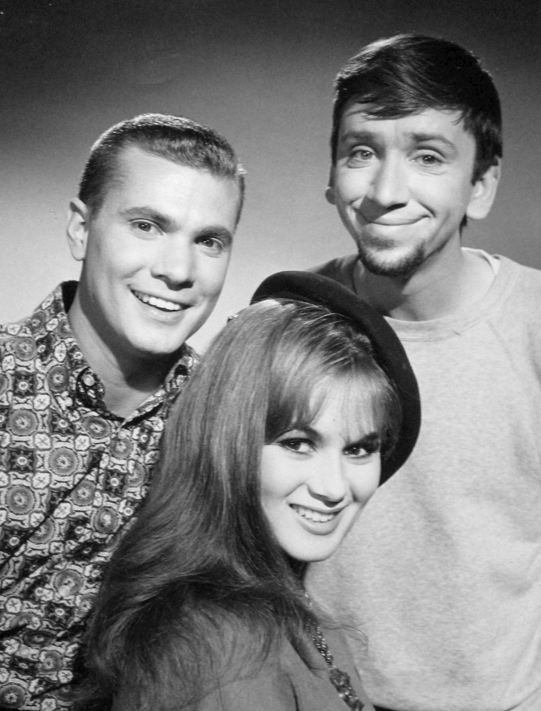 Publicity photo of Dwayne Hickman, Bob Denver, and Danielle De Metz from the television show The Many Loves of Dobie Gillis.